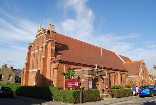 St Peter's Church